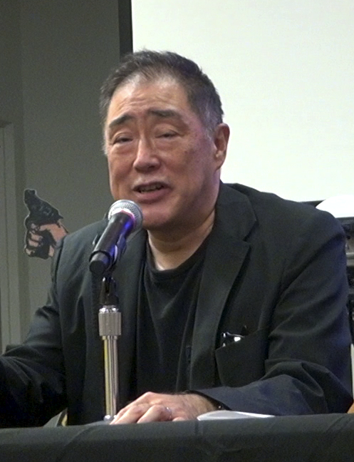 Larry Hama talking at NYU in 2011